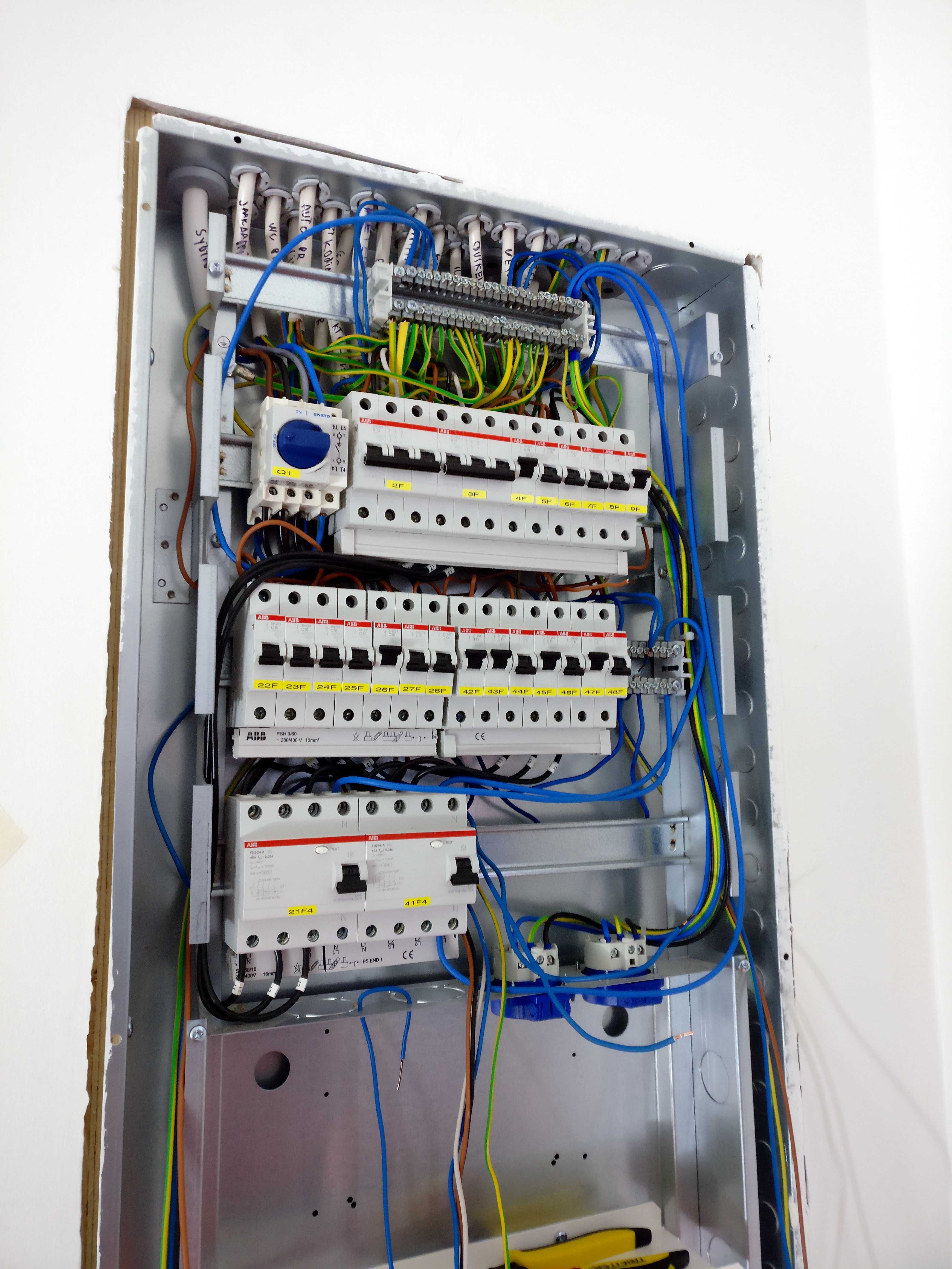 Opened distribution board.